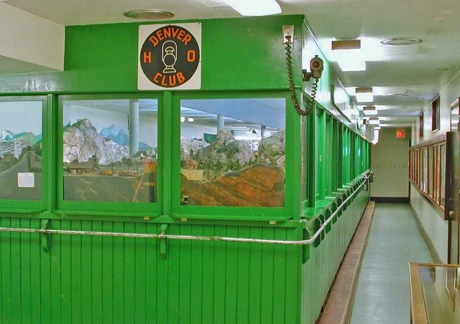 Exterior view of the Denver HO Model Railroad Club in the basement of the Colorado Railroad Museum.